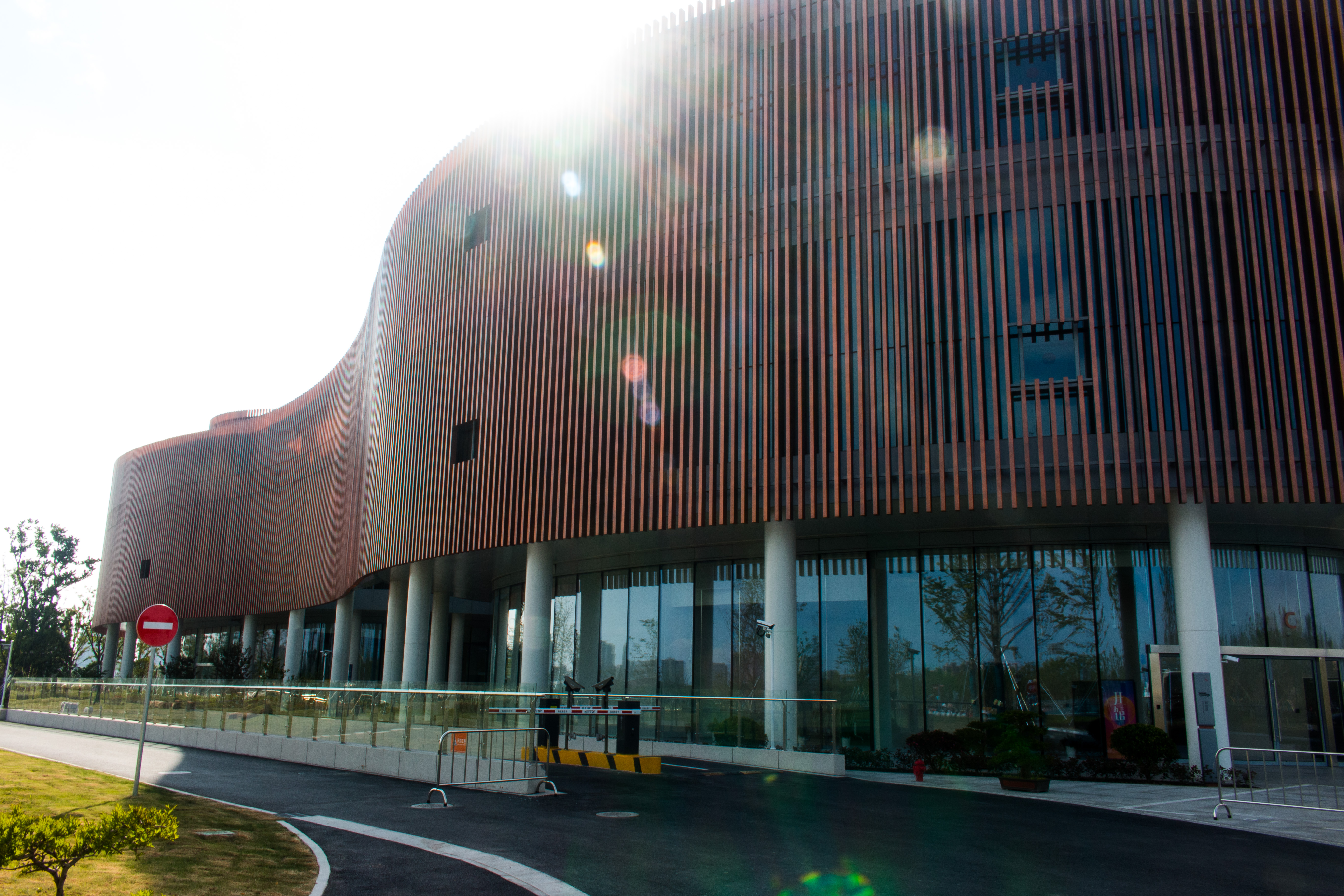 Fengxian Museum of Shanghai